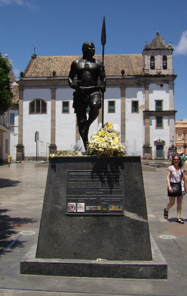 Zumbi dos Palmares statue in Salvador, Brazil